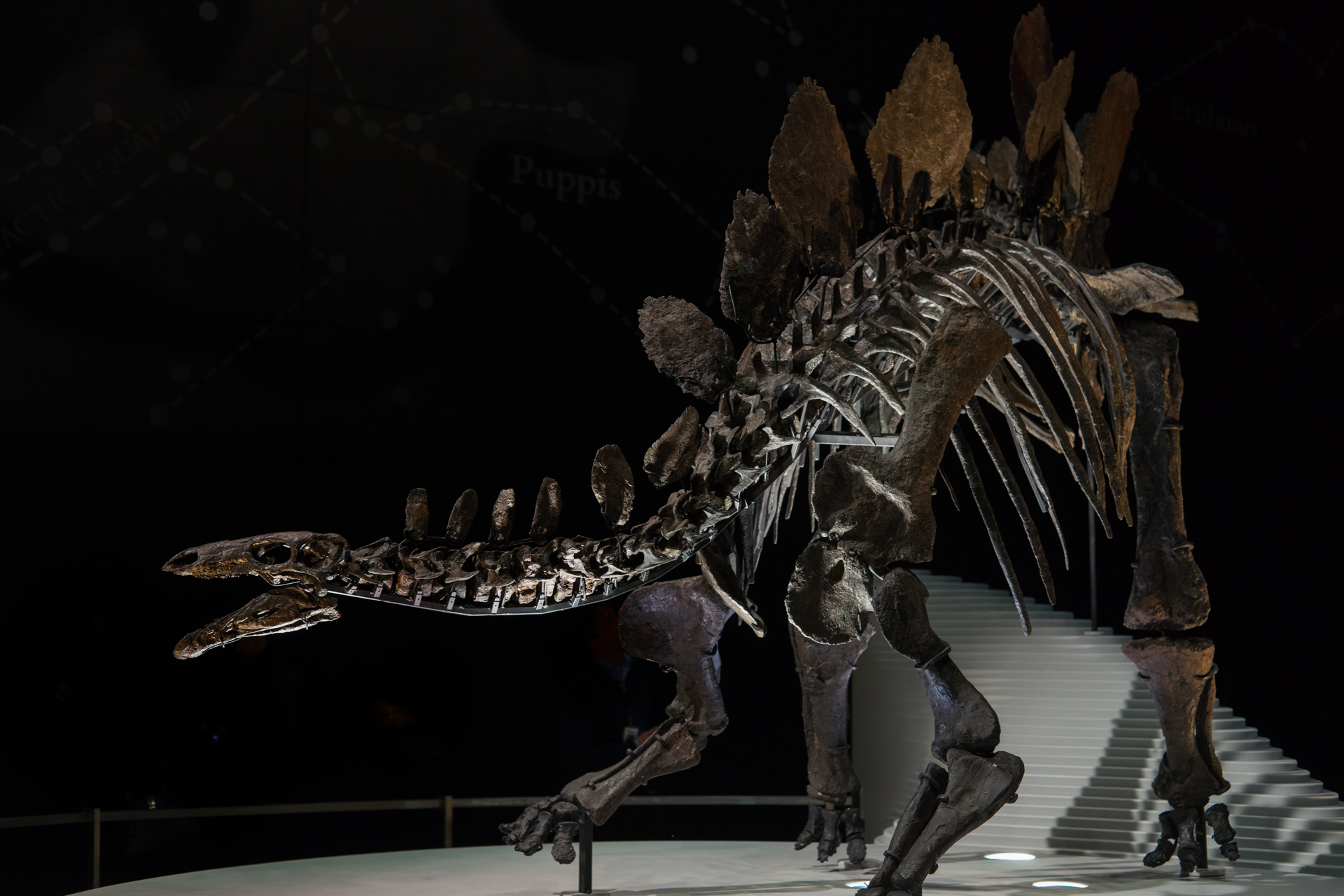 Mounted Stegosaurus stenops specimen NHMUK PV R36730 ("Sophie" or "Sarah") in the Natural History Museum, London.